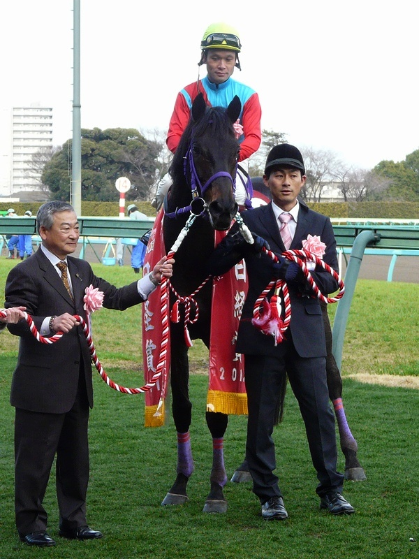 Neko-punch20120324(2)